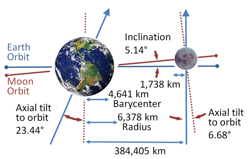 NASA photos of Earth and Moon labeled with some data on orbits and tilts